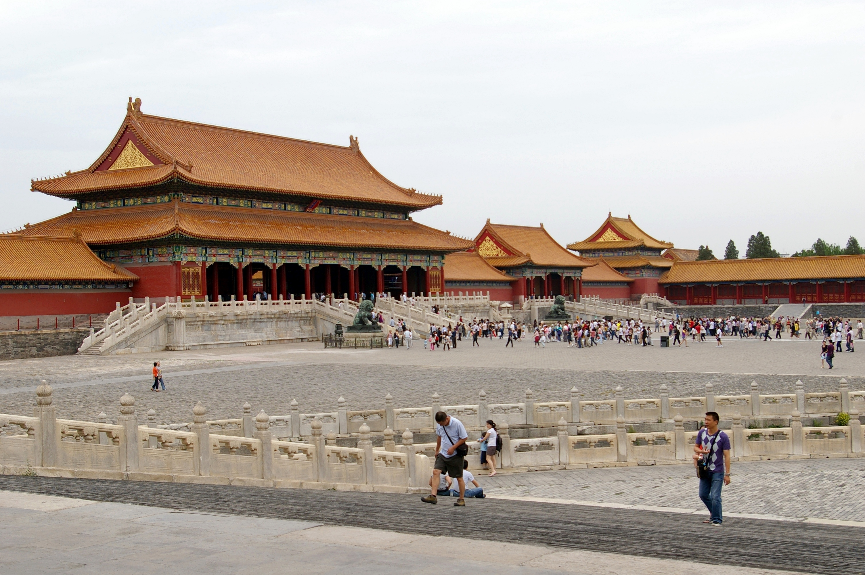 Forbidden City in Beijing